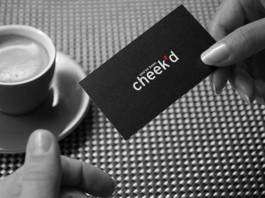 When you "get cheek'd", someone will hand you a card with a message such as "emotionally available" as well as a letter/number code on the back. You can then type this code on the website to reveal the profile of this admirer.